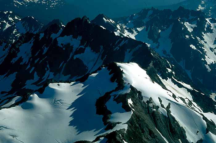 Queets Glacier, Mount Queets, Olympic National Park, date unknown. Photographer: Kirk, Ruth W. Photo shows "Queets Glacier on Mount Queets, Olympic National Park".